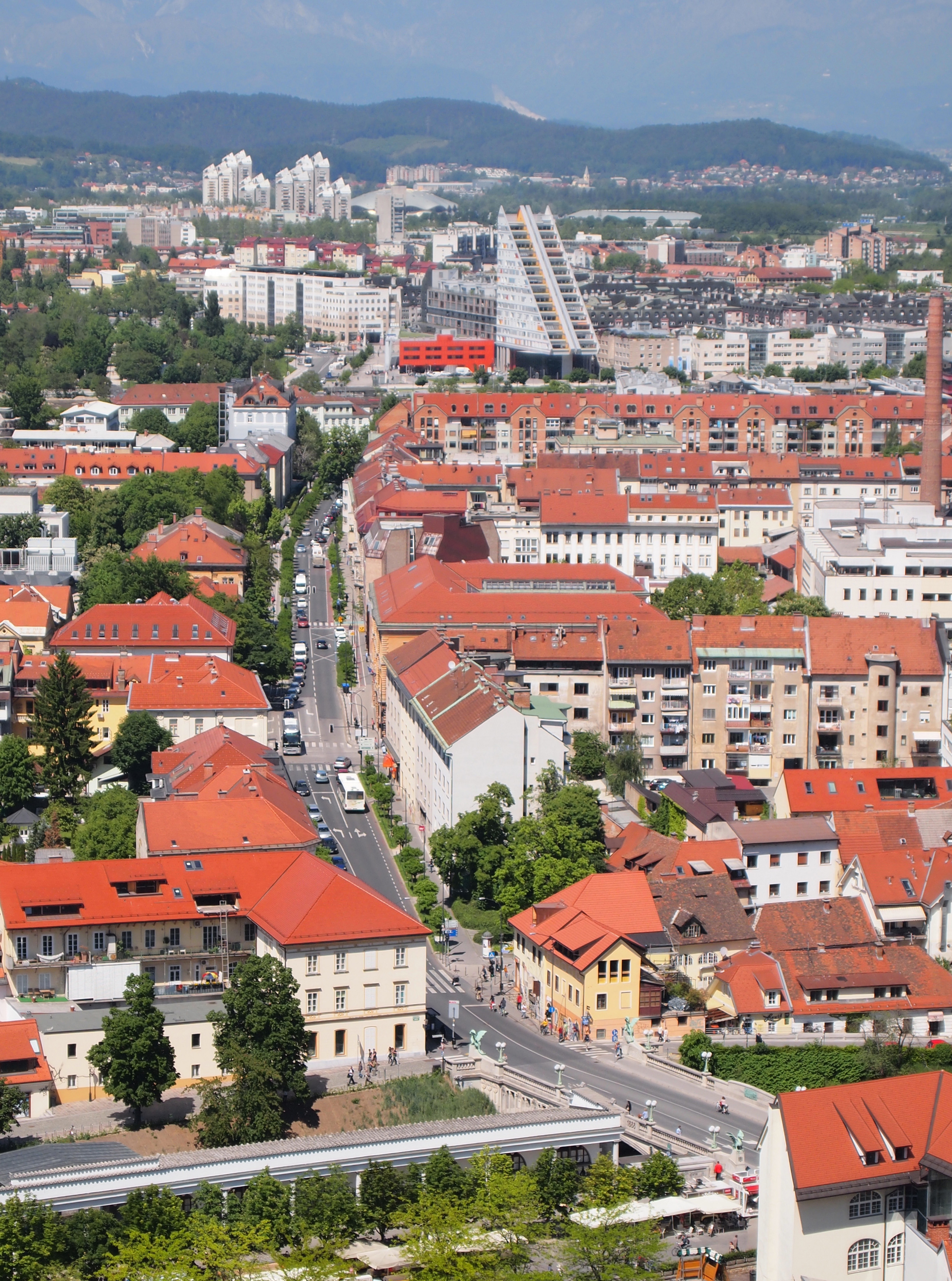 Street Resljeva cesta in Ljubljana. This photograph was taken with a Olympus E-PL1.